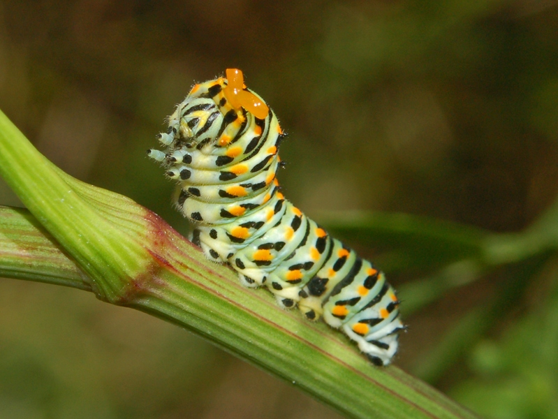 Machaon